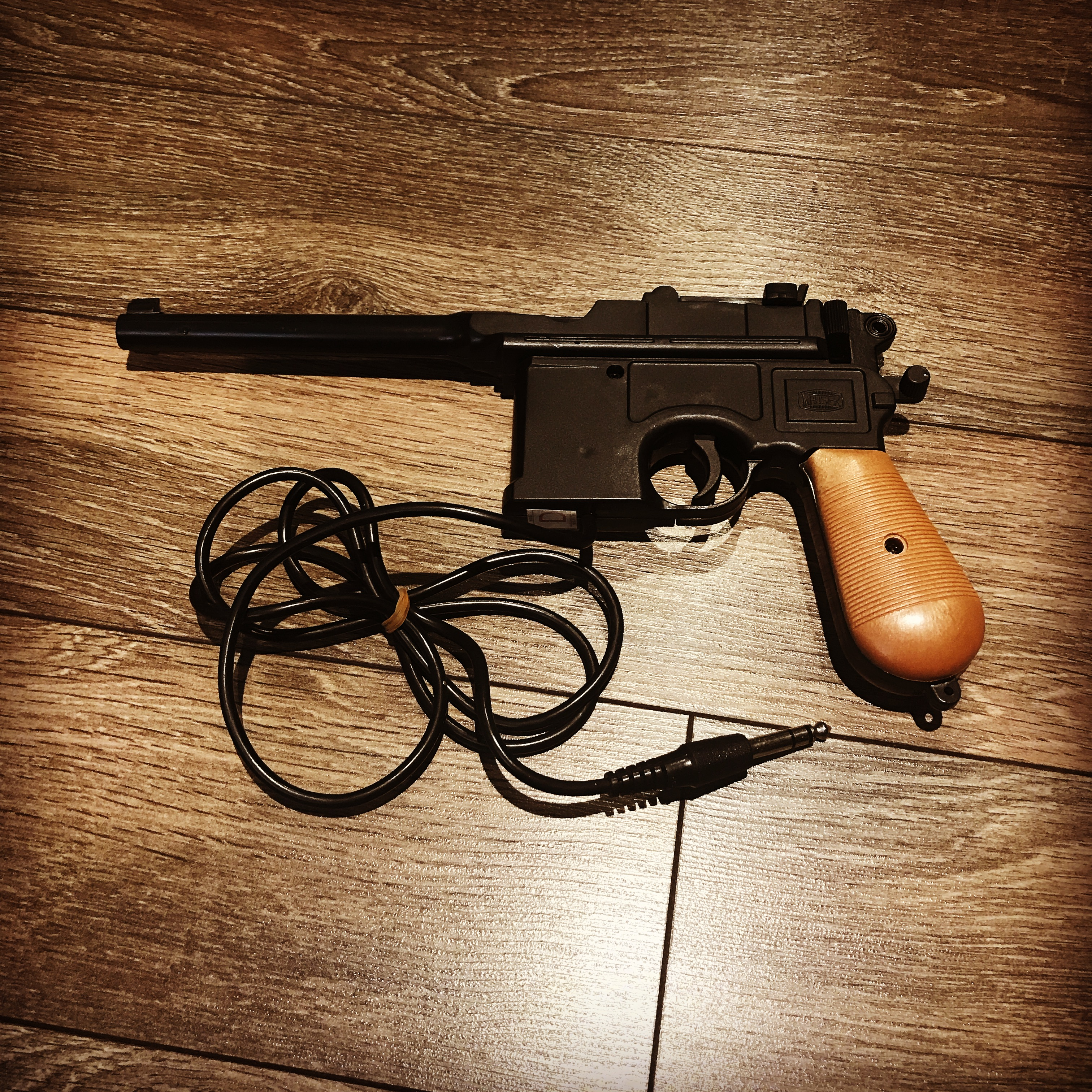 Cassette Vision Light Gun for the Big Sport 12